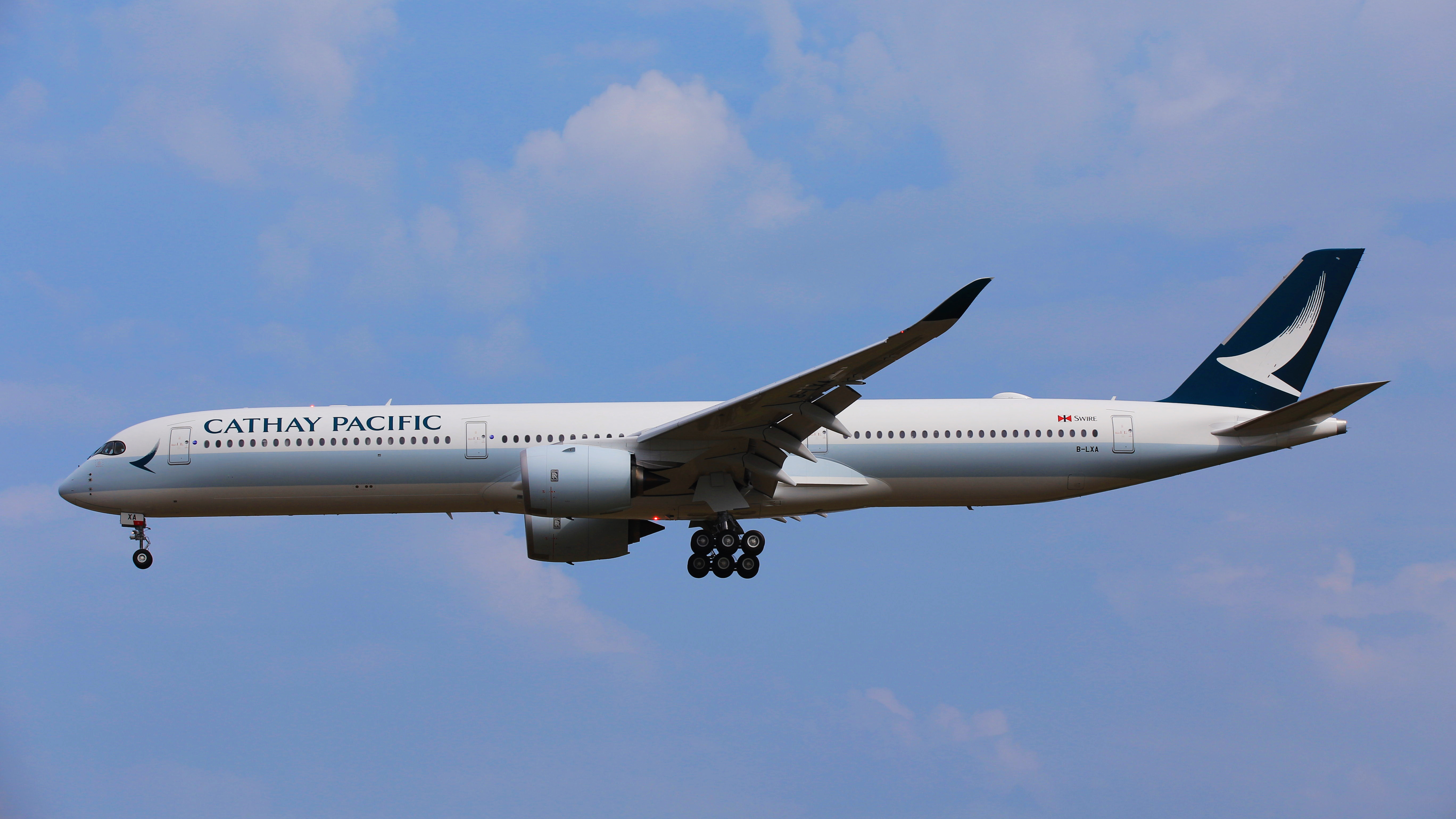 Cathay Pacific A350-1000XWB B-LXA Landing In Taipei(TPE)